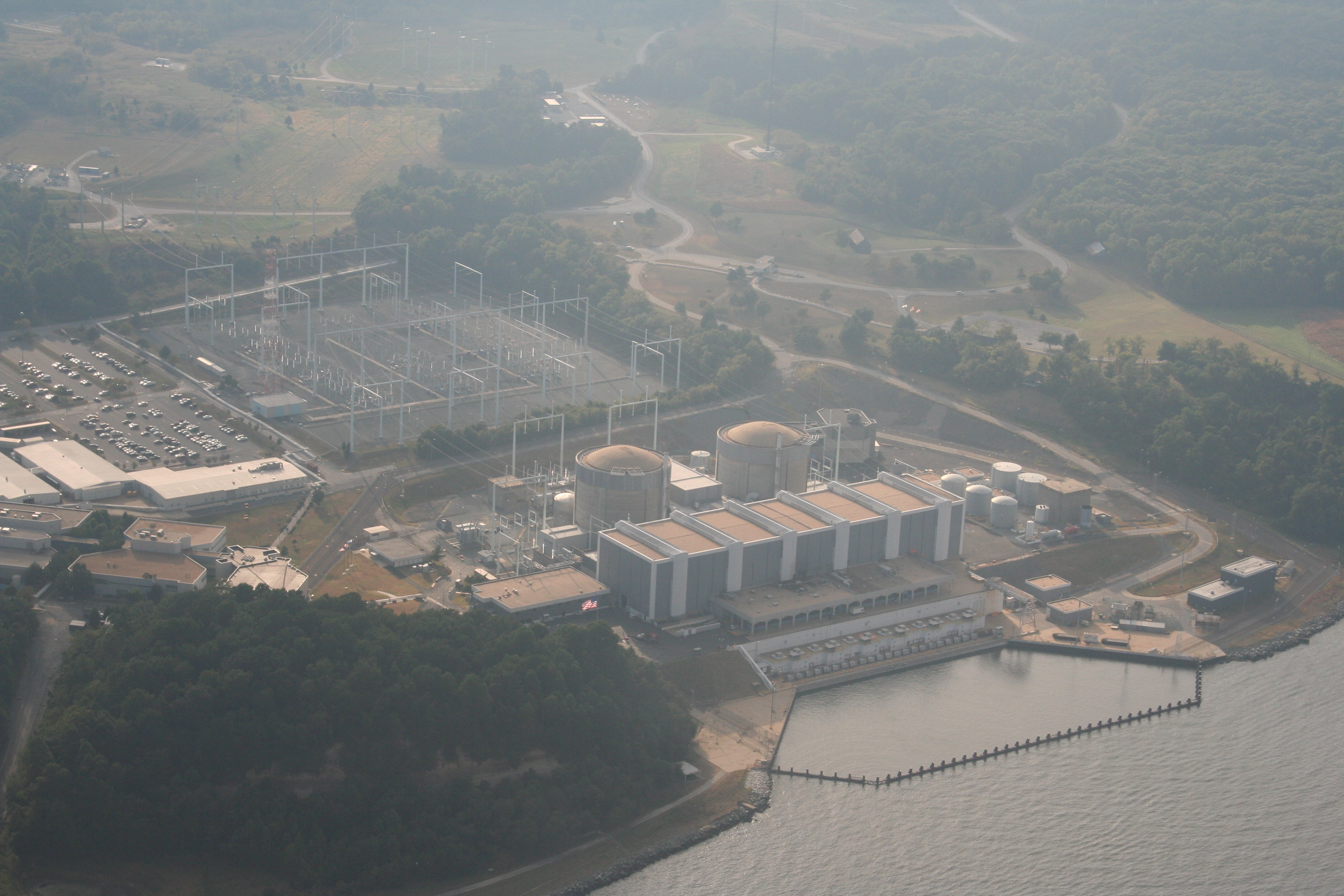 Aerial view of Calvert Cliffs Nuclear Power Plant, Calvert County, Maryland.